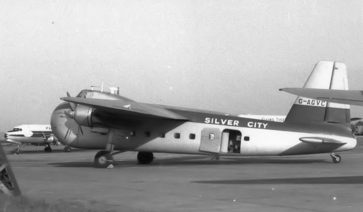 Bristol 170 series 21 Freighter G-AGVC of Silver City Airways at Manchester (Ringway) Airport in May 1955